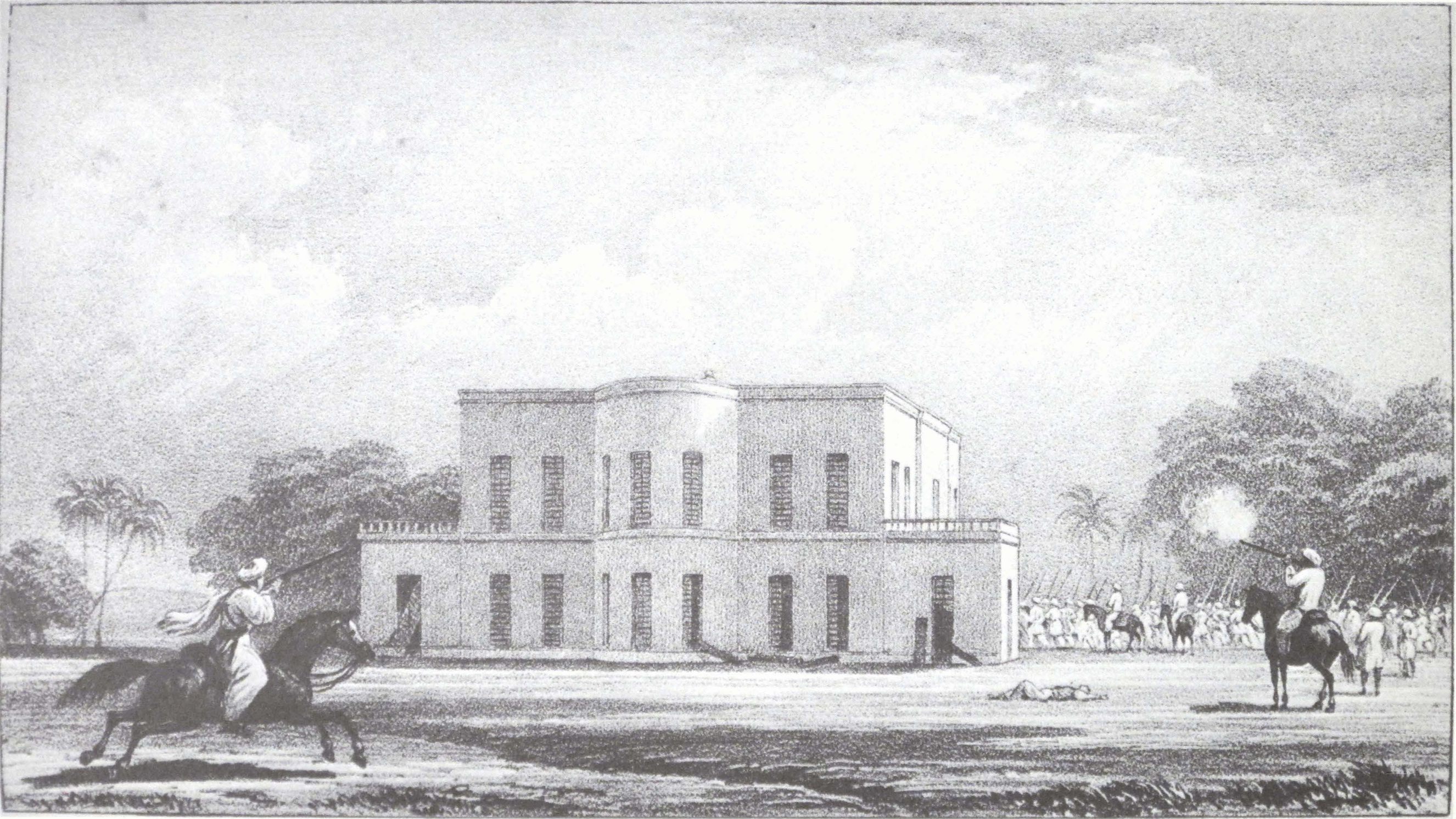 Wazir Ali Khan's supporters attack Samuel Davis's house - Benares, Oudh State, northern India - January 1799. Drawing by Samuel Davis